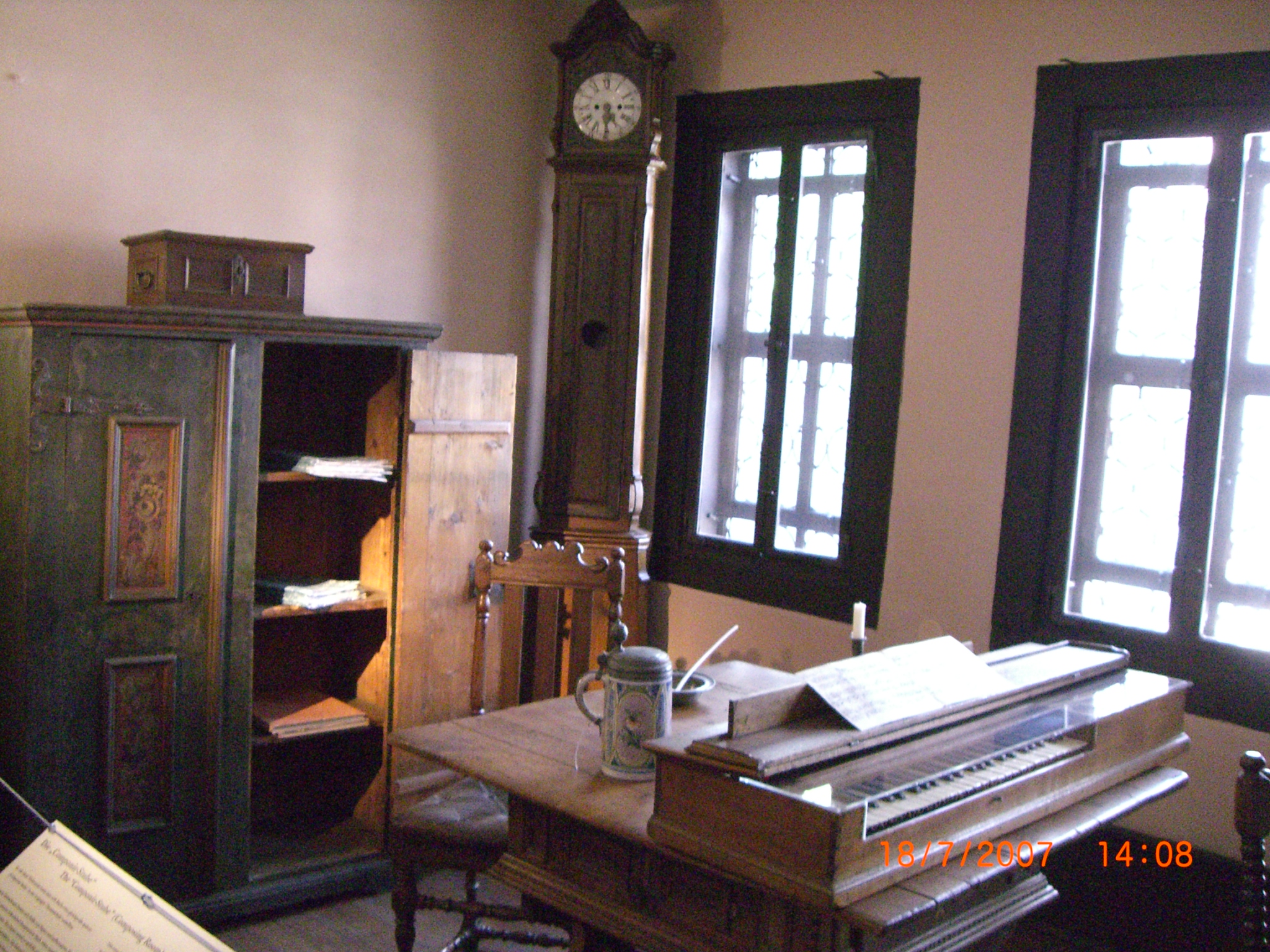 Composition room in Bach House (Eisenach, Thüringen, Germany)